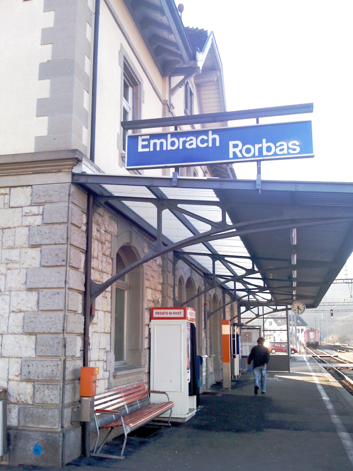 Embrach railway station - stadicomo de Embrach